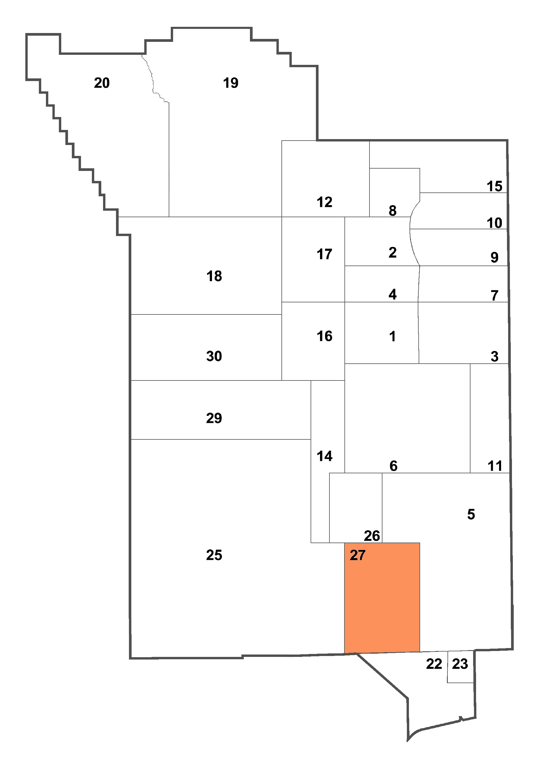 This is a derivative work based on a map taken from a PDF published by Nevada Risk Assessment/Management Program, Nevada Test Site, a part of the US Department of Energy.